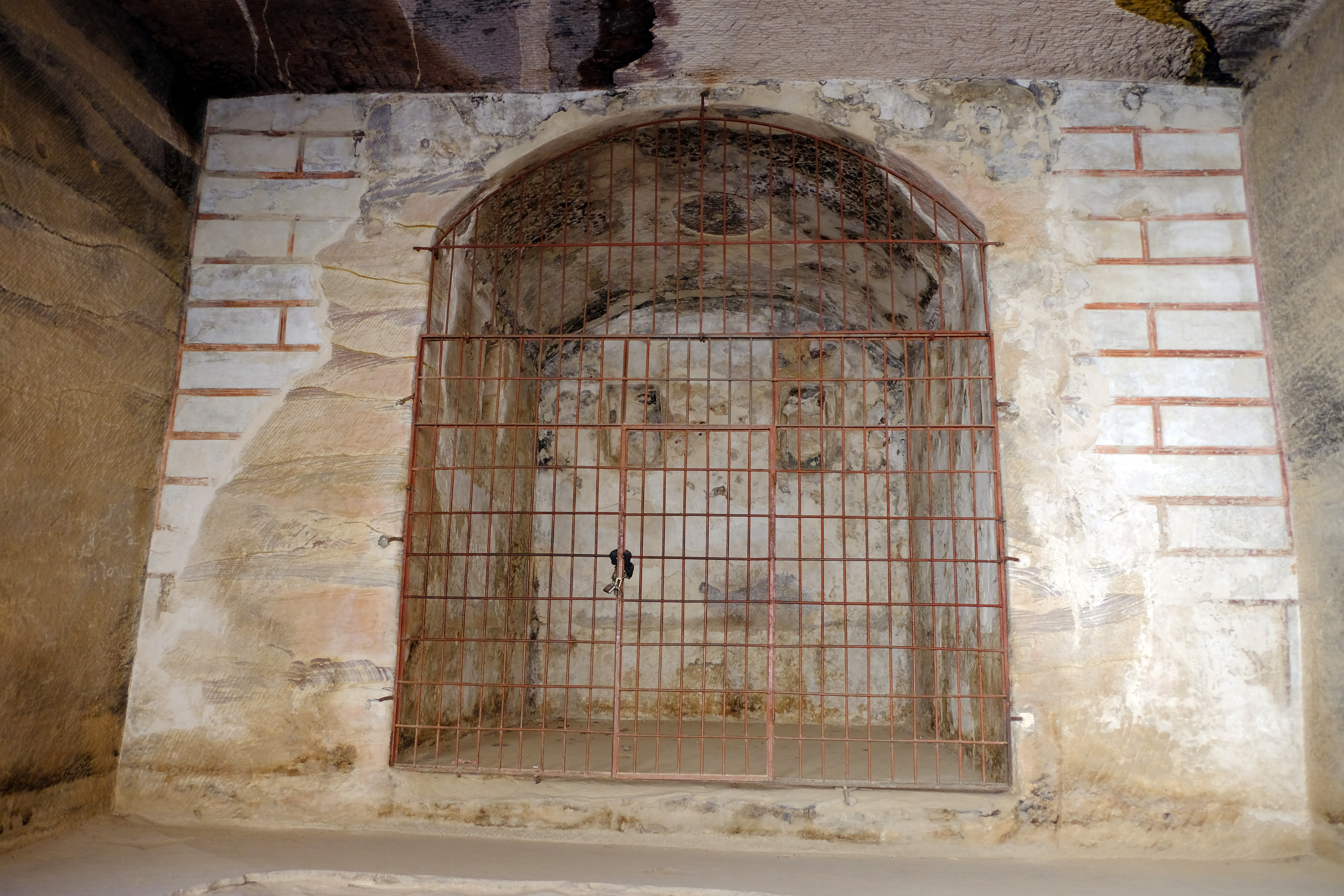 Paints of biclinium